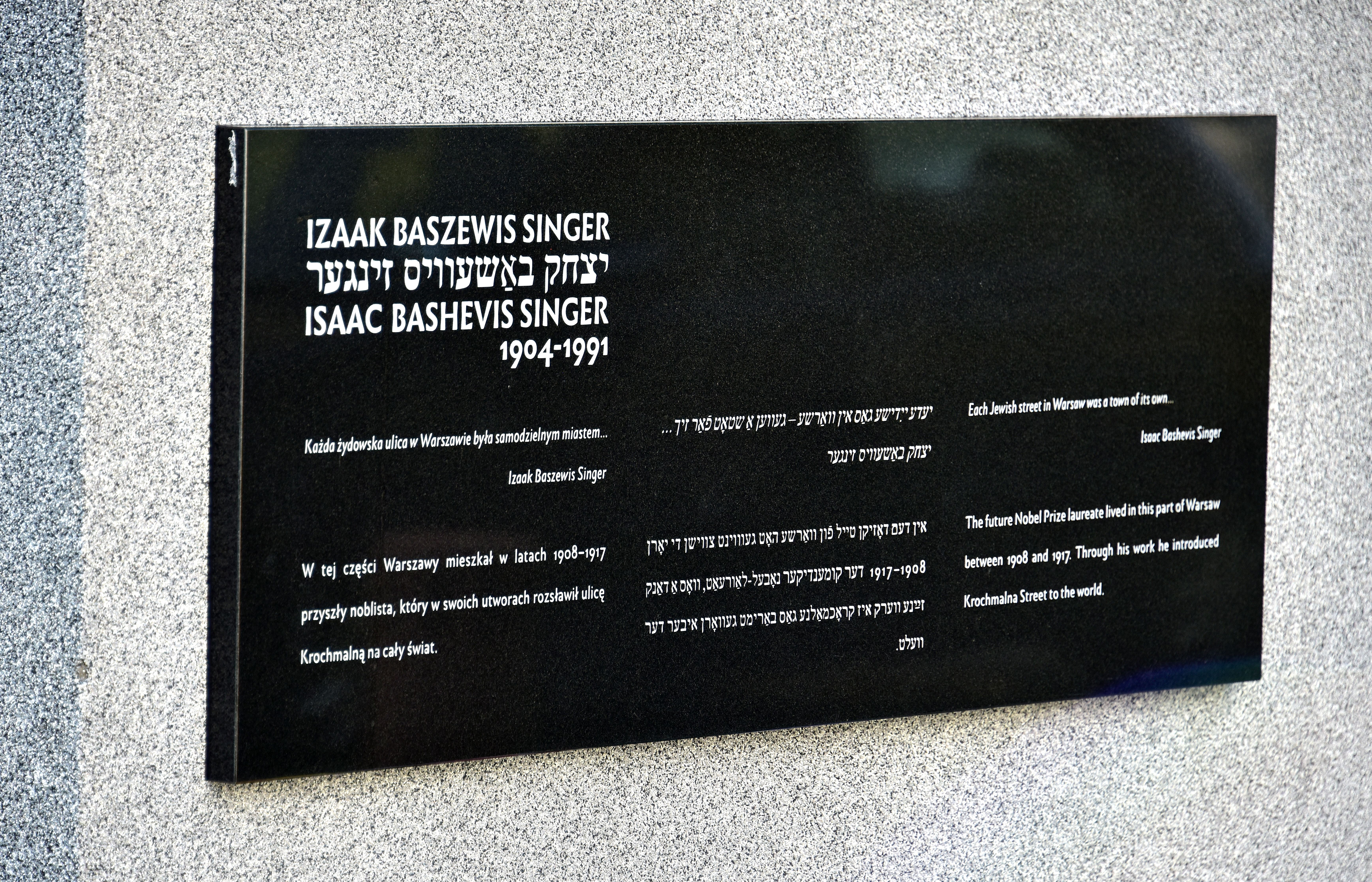 Plaque commemorating Isaac Bashevis Singer at 1 Krochmalna Street (near interesection with Ciepła Street) in Warsaw